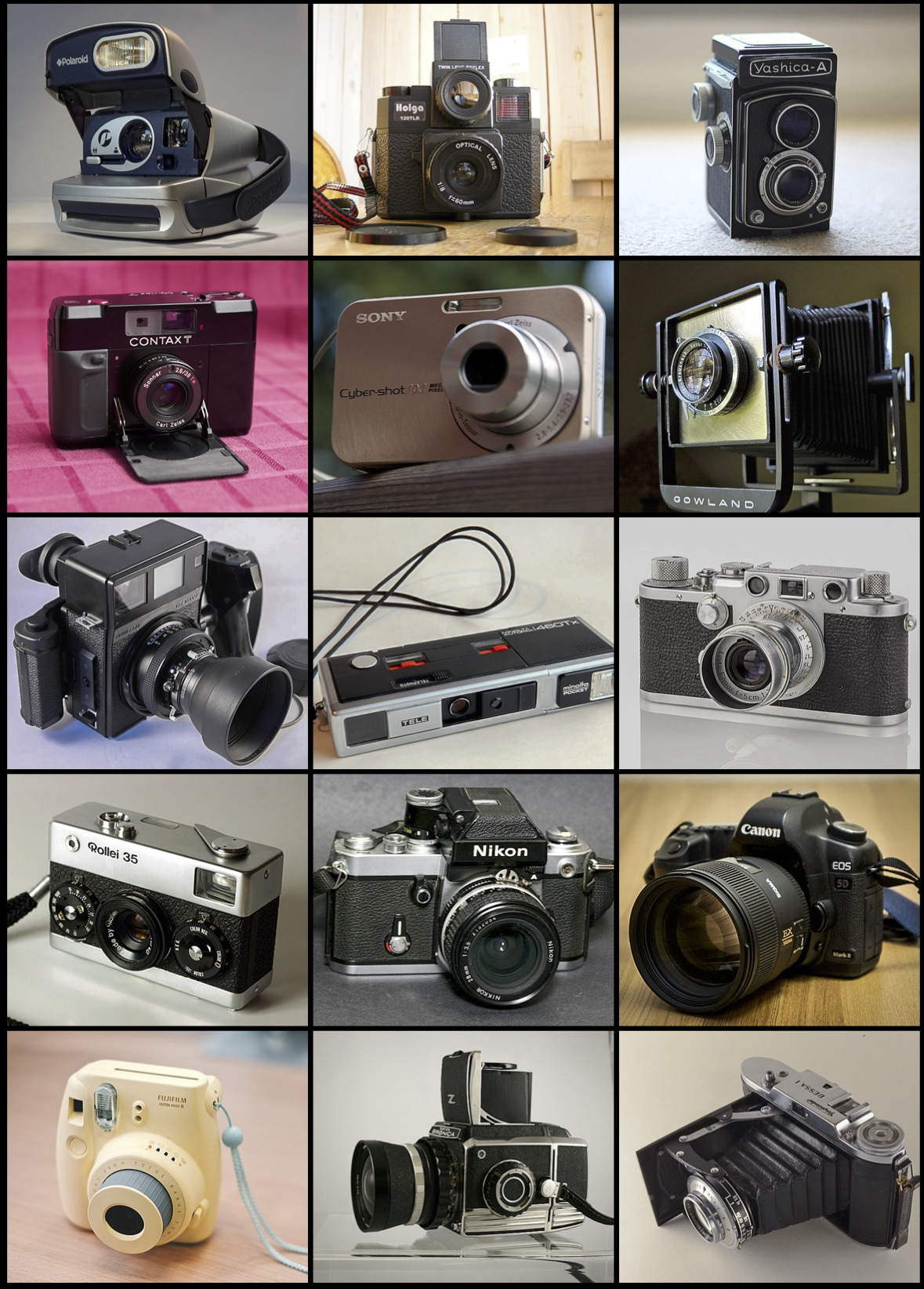 Various cameras. From top left: Polaroid P, Holga, Yashica A, Contax T, Sony Cybershot DSC-N2, Gowland Pocket View, Mamiya Universal Press, Minolta Pocket Autopak 460, Leica IIIf, Rollei 35, Nikon F2, Canon 5D, Fuji Instax Mini 8, Zenza Bronica and Voigtlander Bessa I.